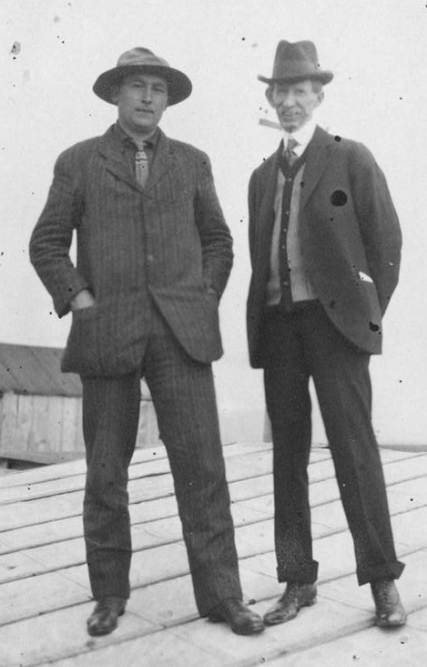 Norwegian gold prospector Jafet Lindeberg (1873-1962) and American photographer Frank G. Carpenter (1855-1924)